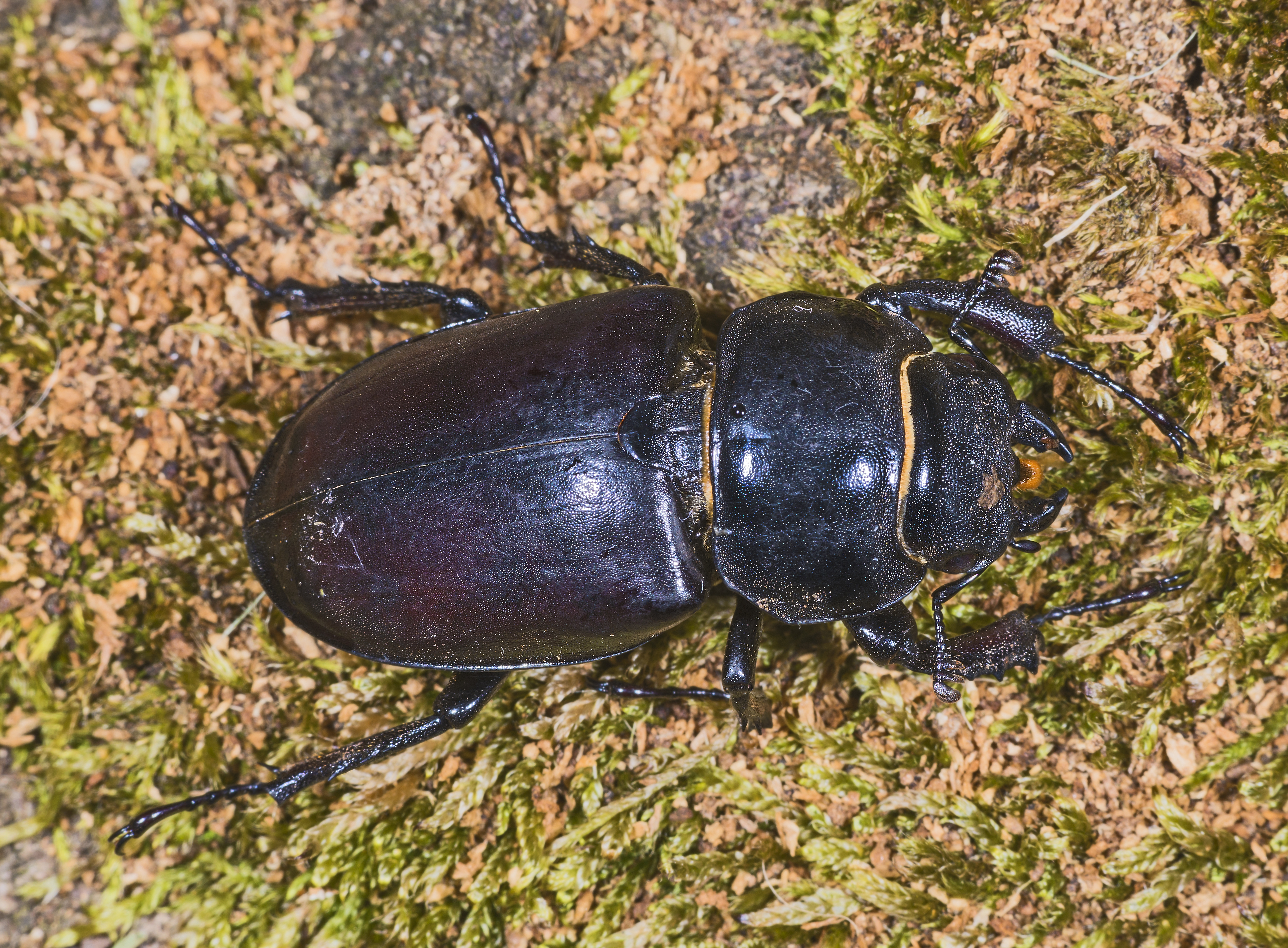 Lucanus cervus